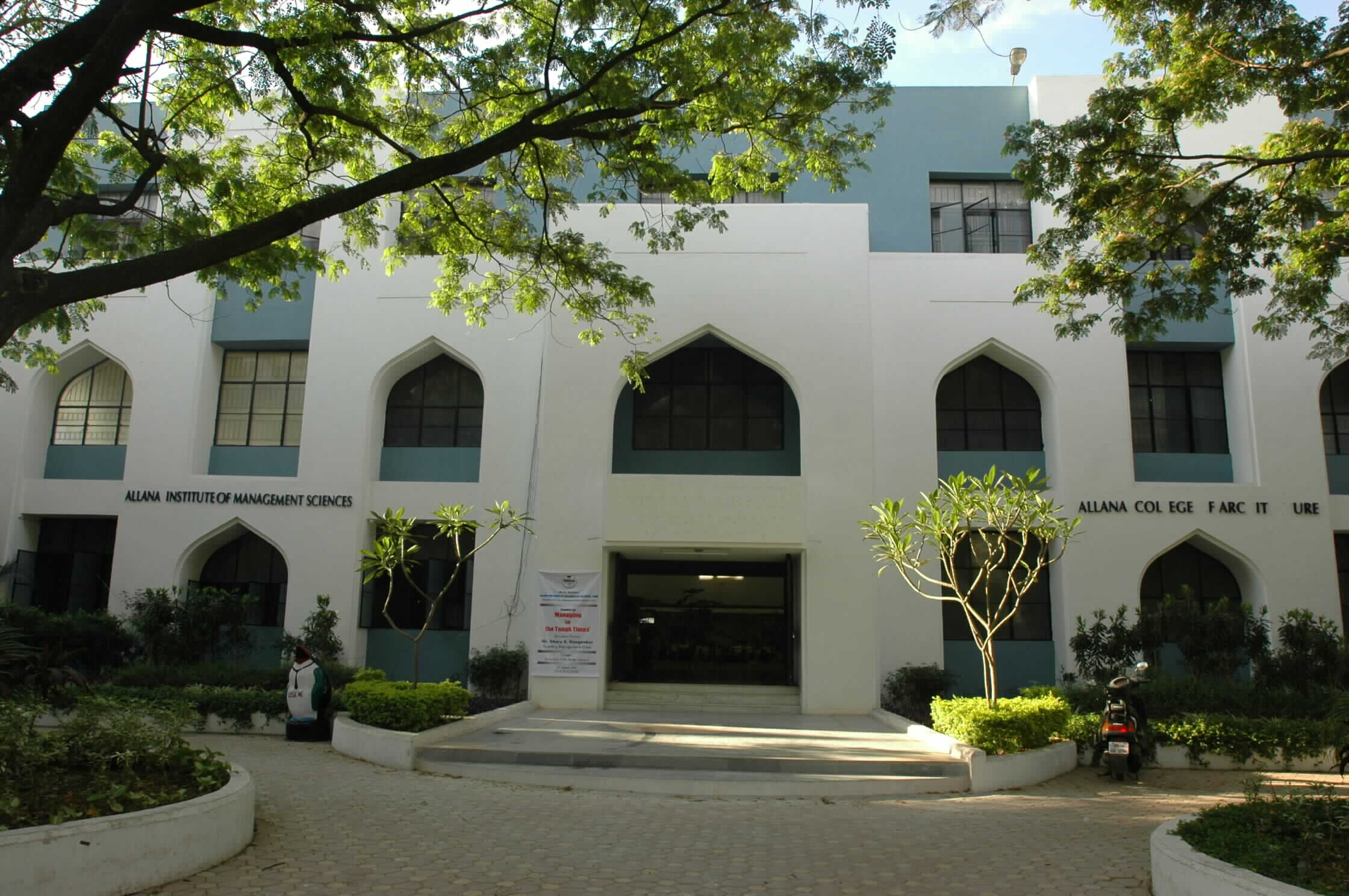 Allana Institute of Management Sciences 2, Azam Campus in pune